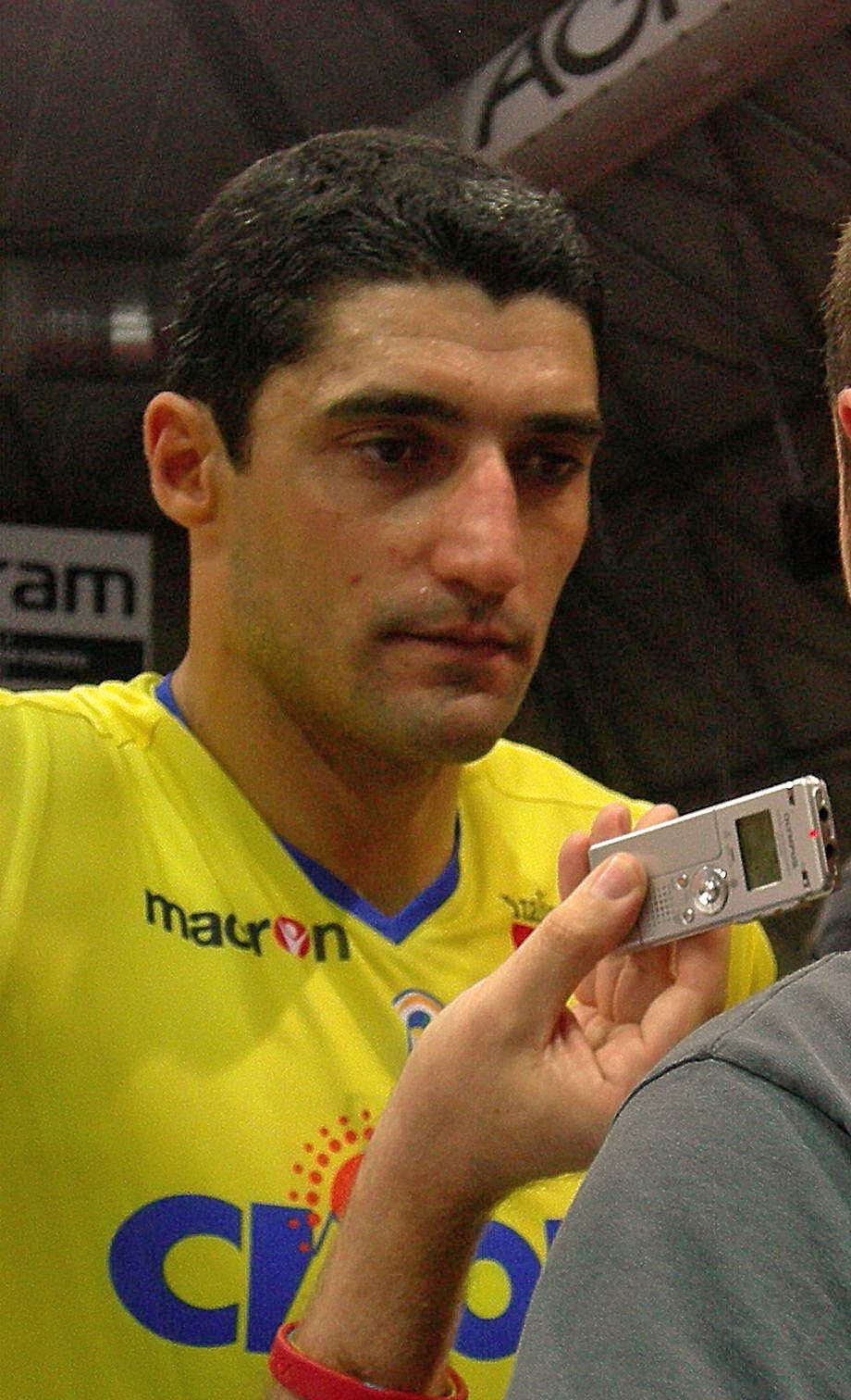 I took this picture during a volleyball match in Piacenza